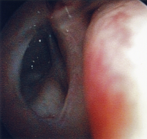 My, ENS Huckelberry Finne's, maxillary ostium during a follow-up visit for my recent turbinate coblation. This shows my giant maxillary ostium due to a Functional Endoscopic Sinus Surgery I had in 2002.